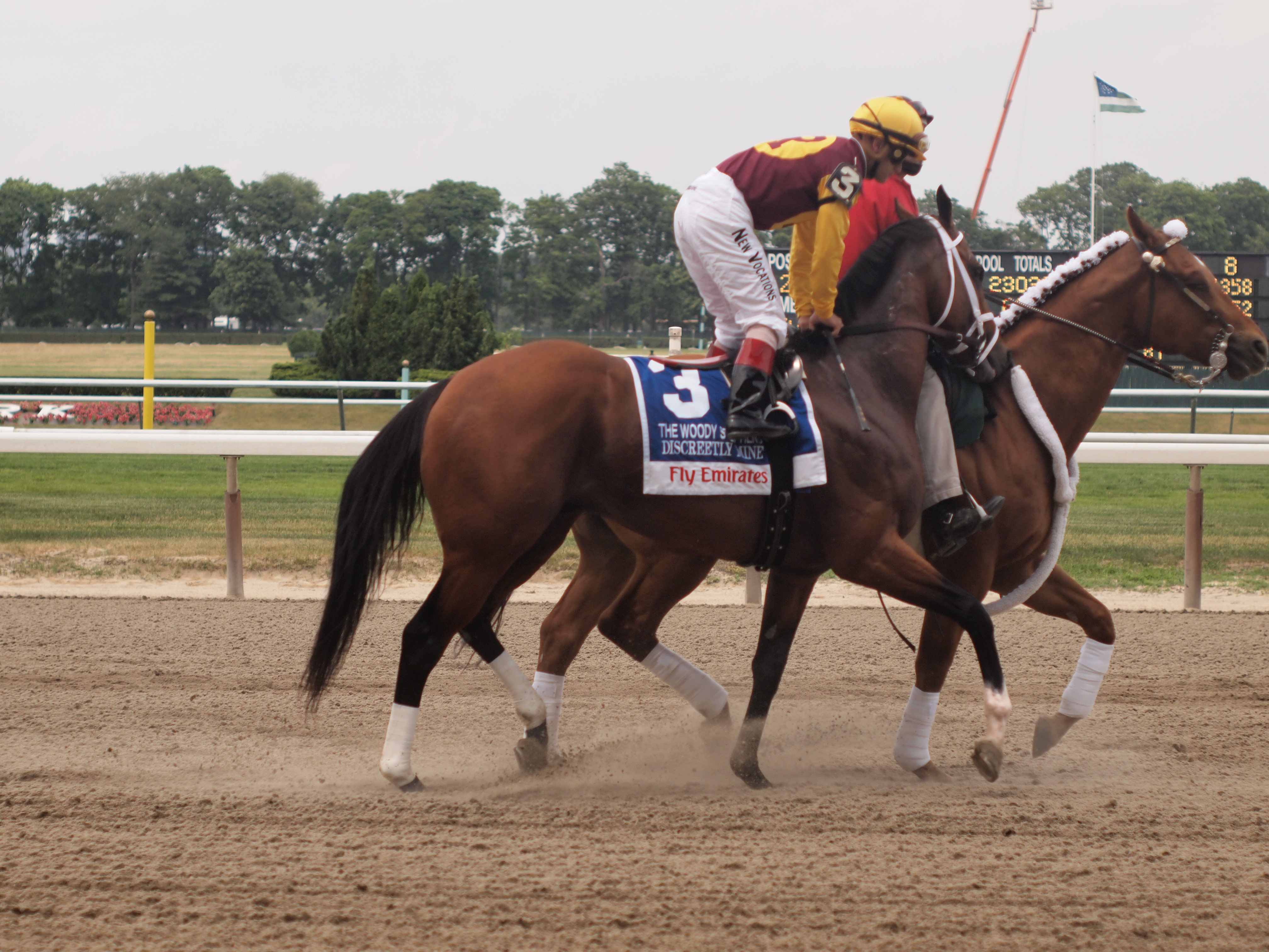 Images taken at Belmont Park on Belmont Stakes day, June 5, 2010